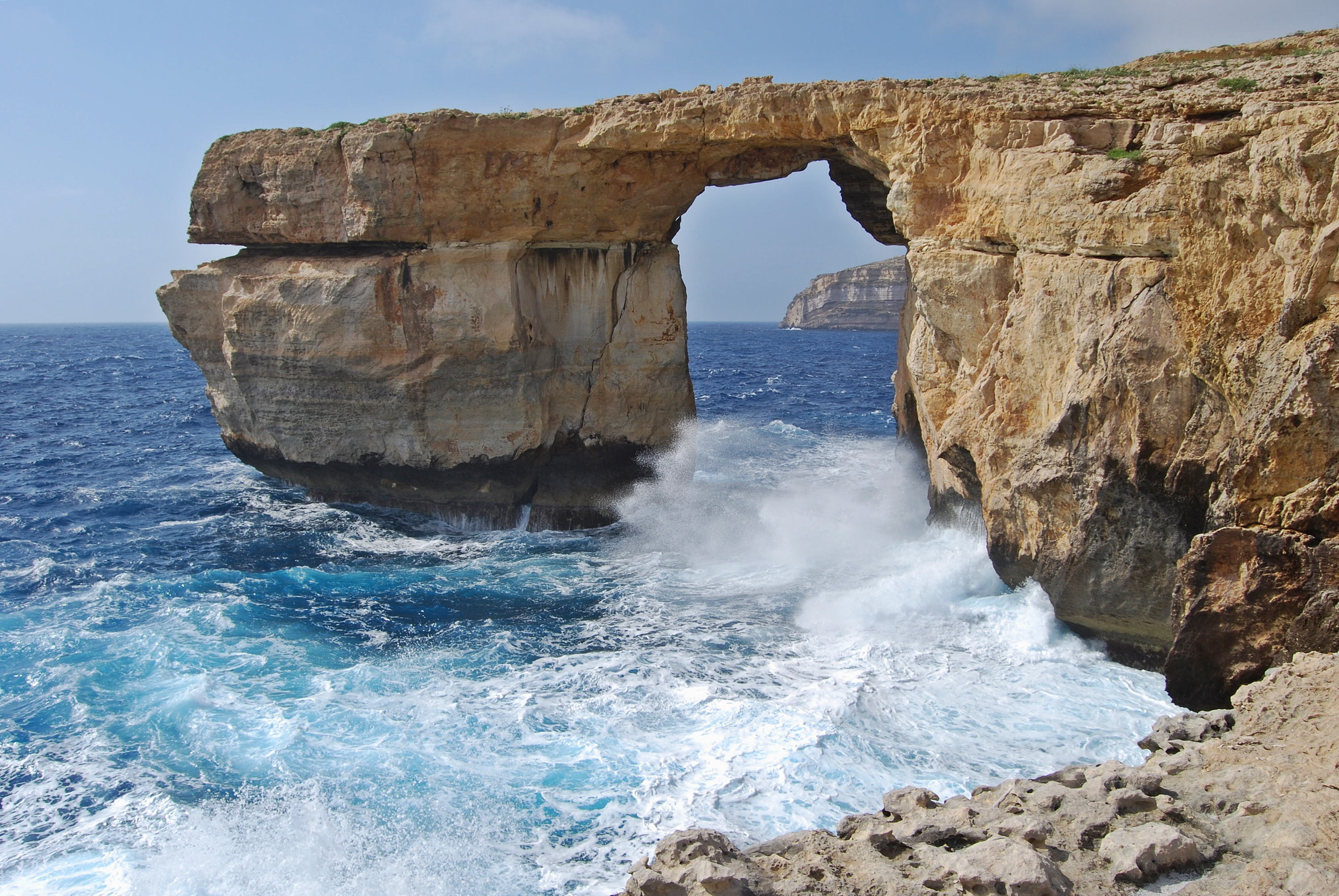 The Azure Window in the west of Gozo island.